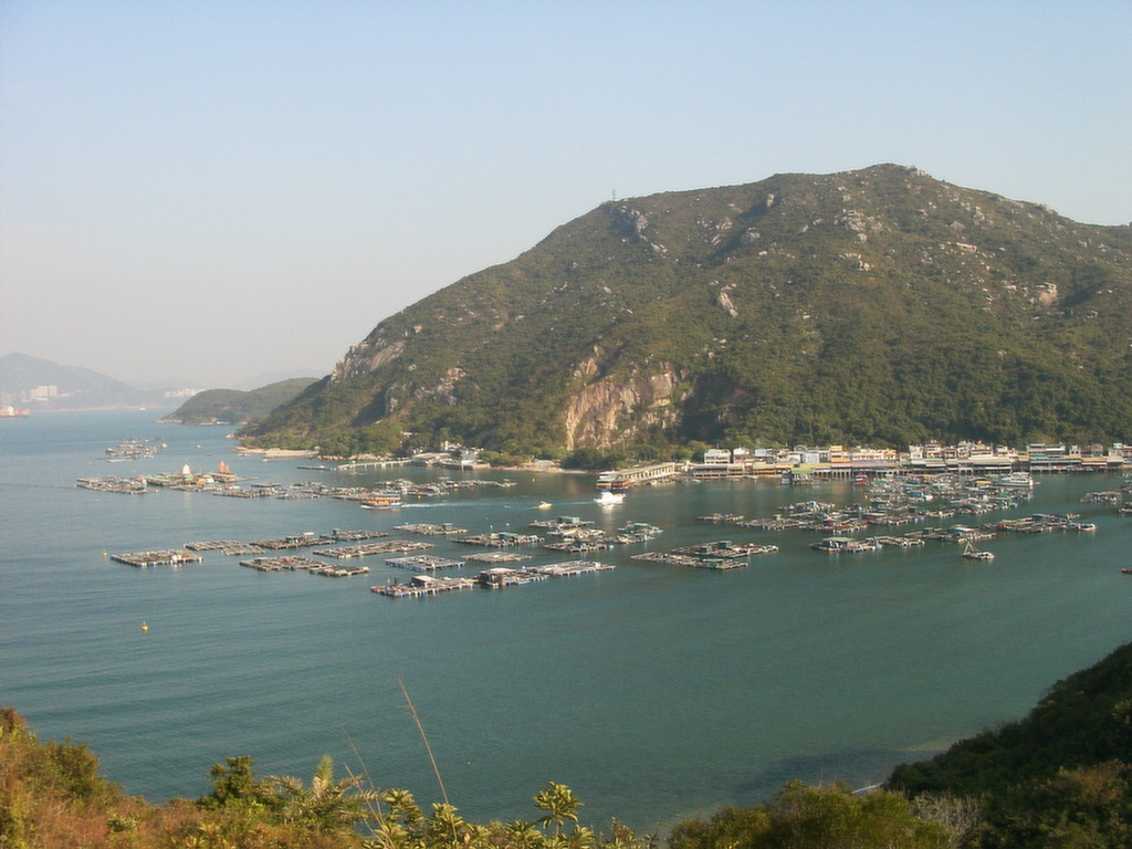 Sok Kwu Wan on Lamma Island, Hong Kong, People's Republic of China - Fish farms